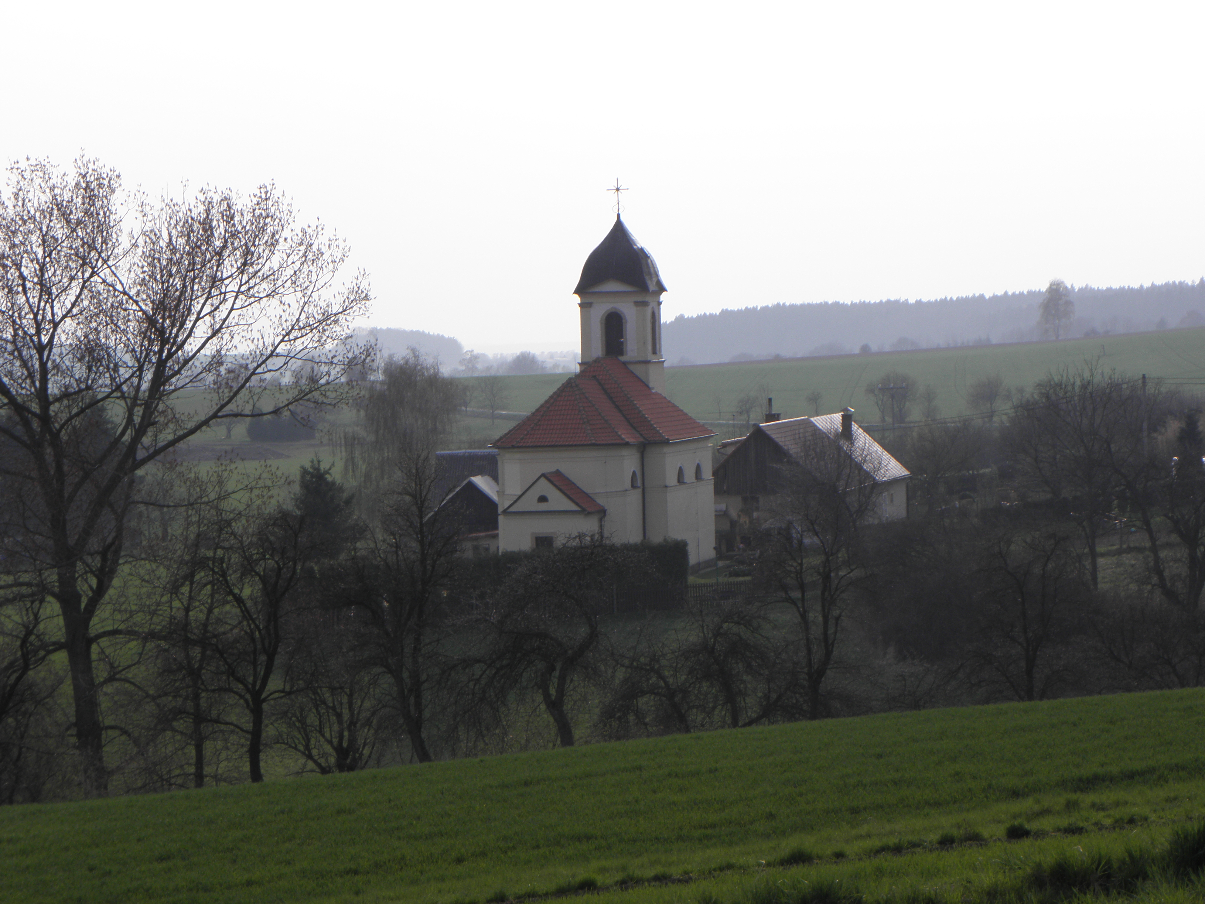 Church of Saint George in the village Hřídelec, an administrative part of the town Lázně Bělohrad, Jičín District, the Czech Republic.